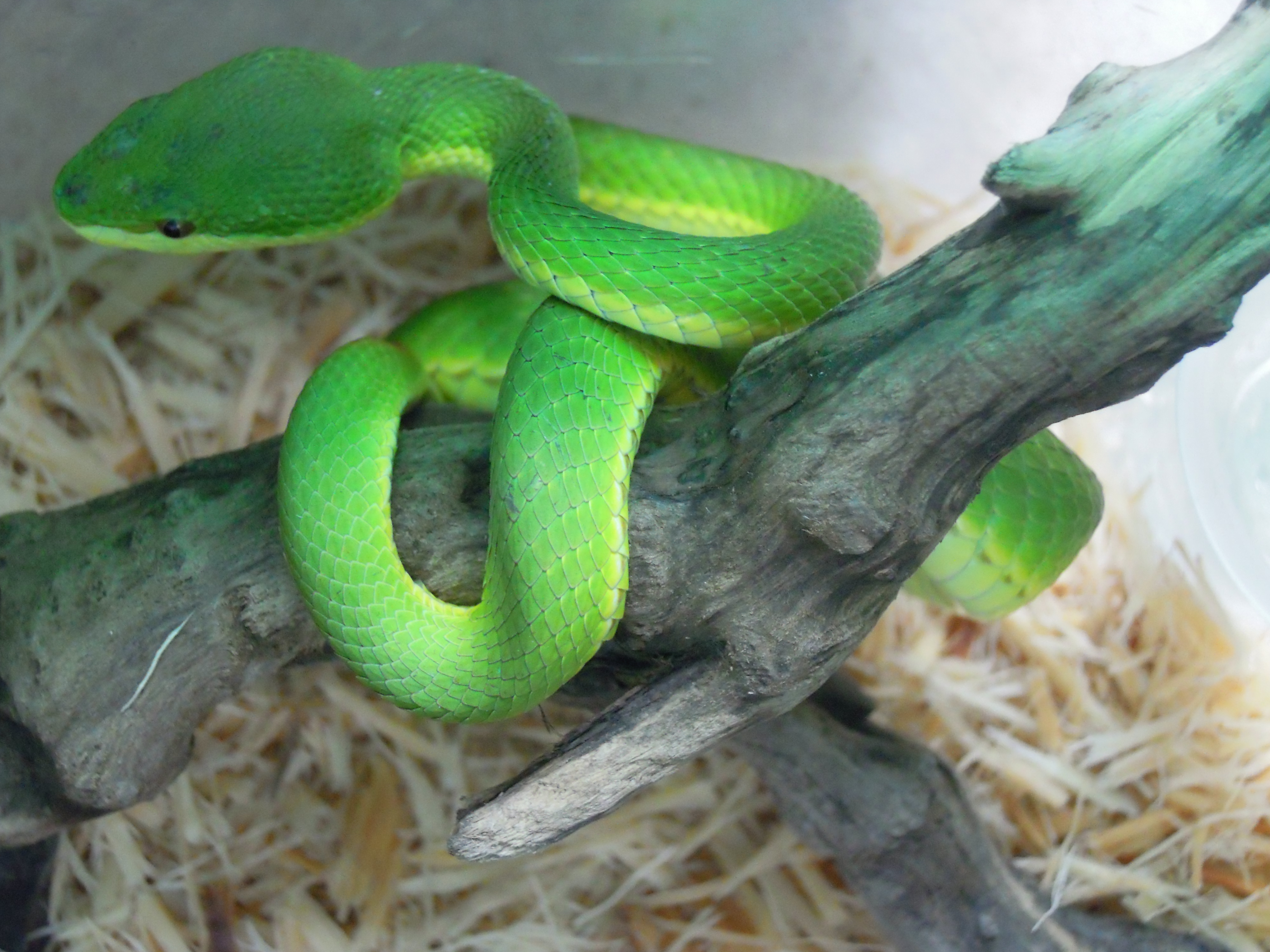 A Green pit viper (Trimeresurus albolabris) in captivity.